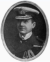 Admiral Sir Somerset Gough Calthorpe Taken by a Royal Navy official photographer